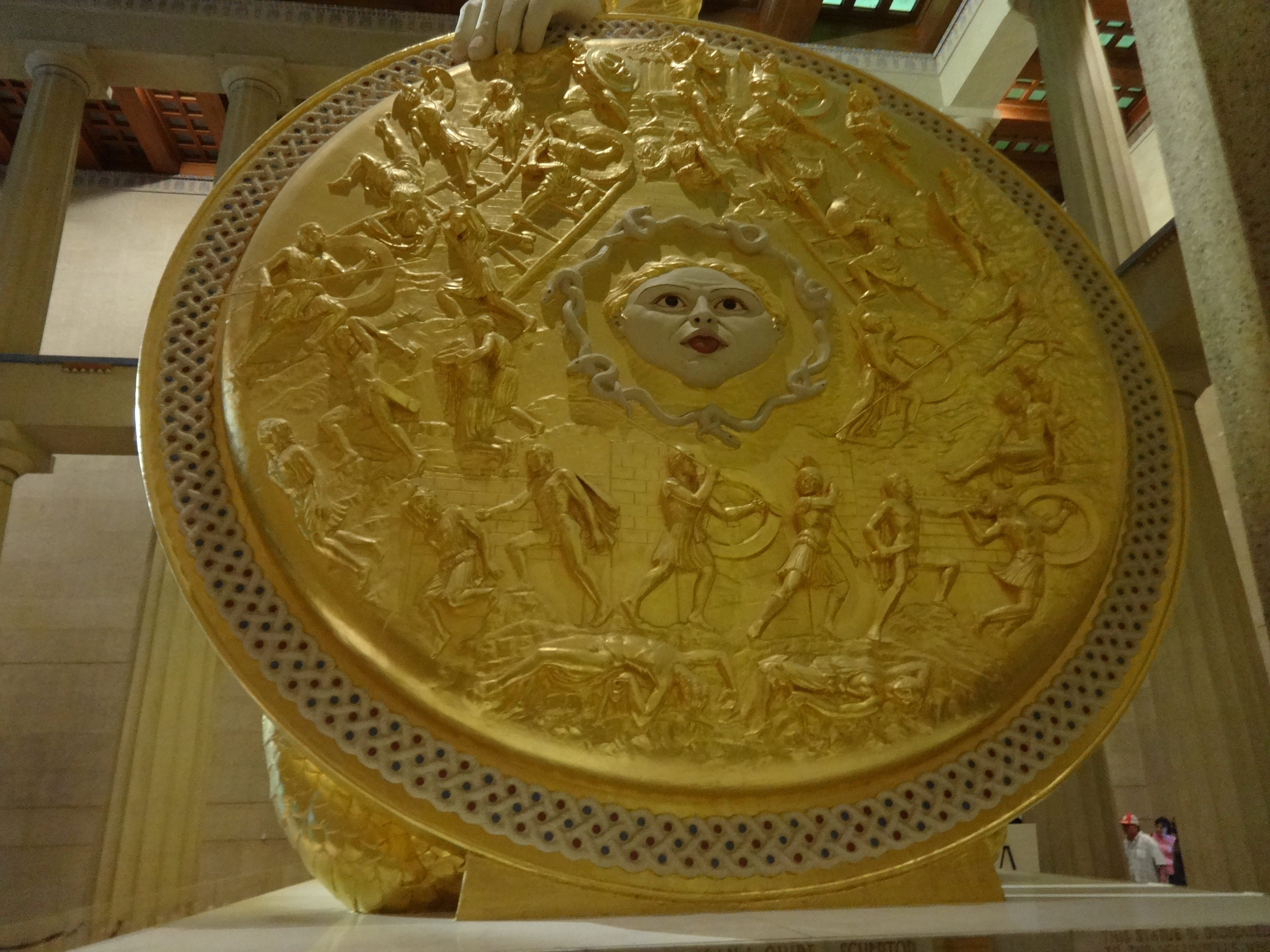 Athena Parthenos (Nashville), Centennial Park, Nashville, Davidson County, Tennessee